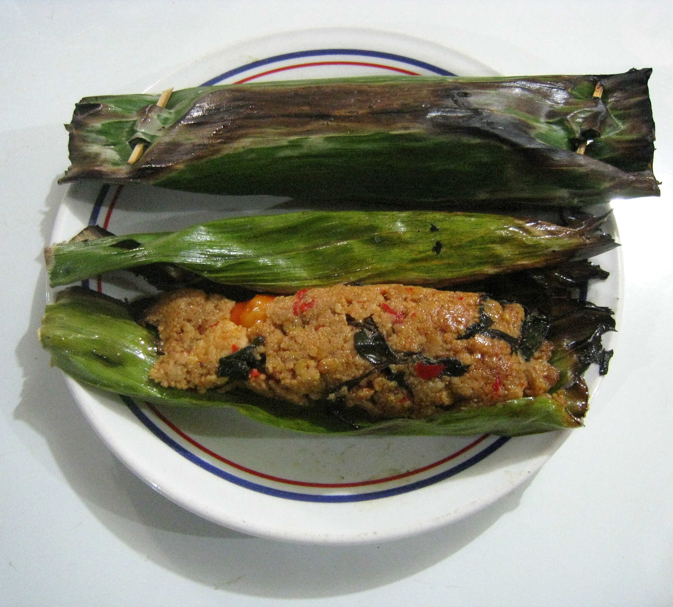 The Pepes Oncom, oncom fermented food spiced and cooked in banana leaf.